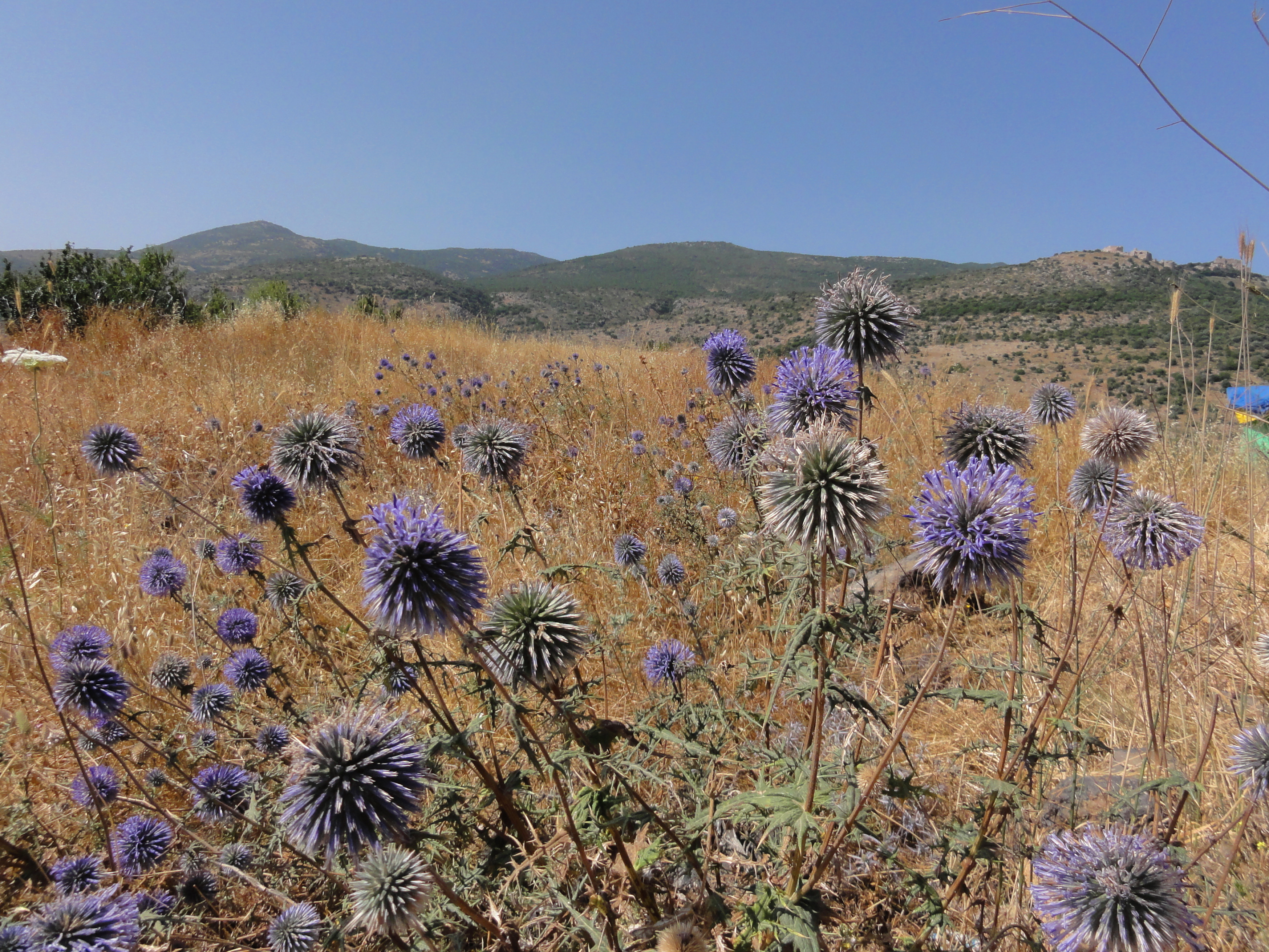 Israel, Golan Heights